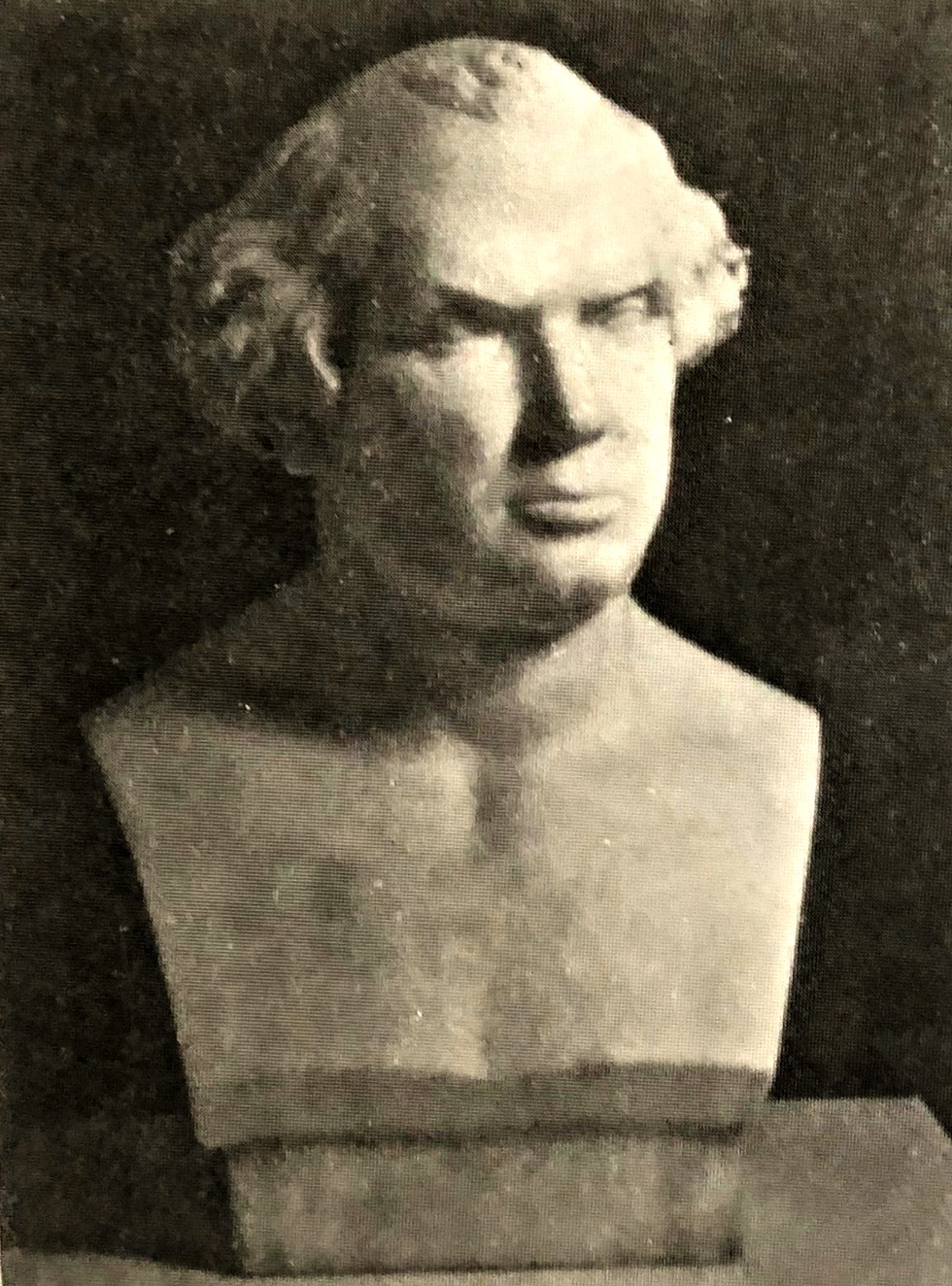 Marble bust of John Young Mason, United States minister of France, 1853